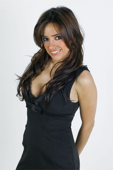 Carmen Alcayde, television presenter from Spain.